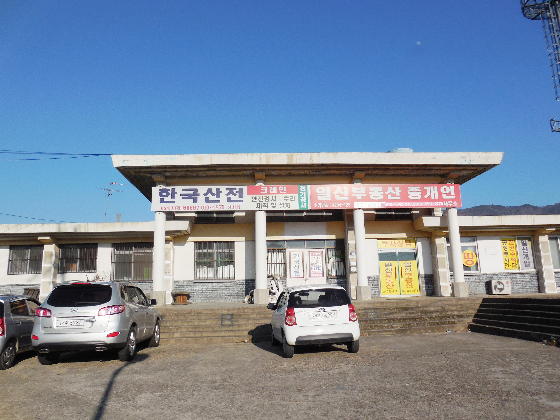 Korail Donghae Line Mohwa Station.